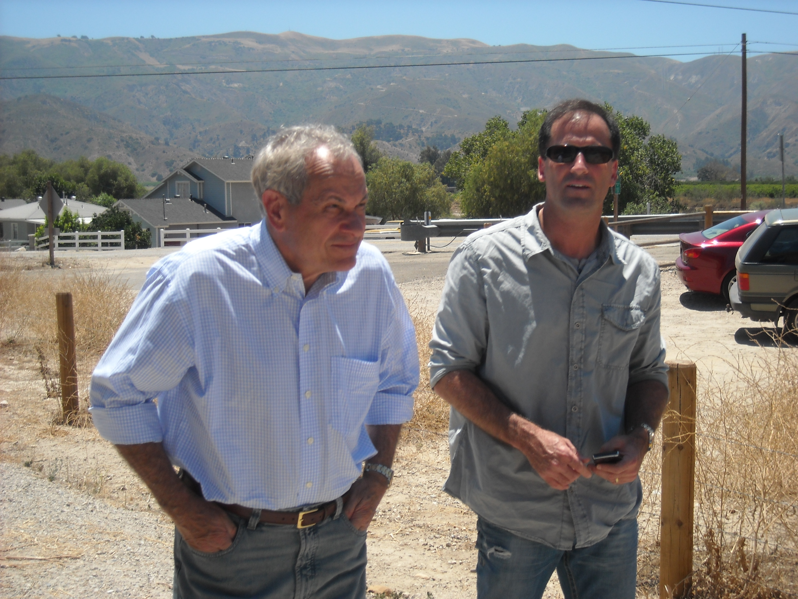 John Aglialoro and Harmon Kaslow, producers of Atlas Shrugged, Part 1